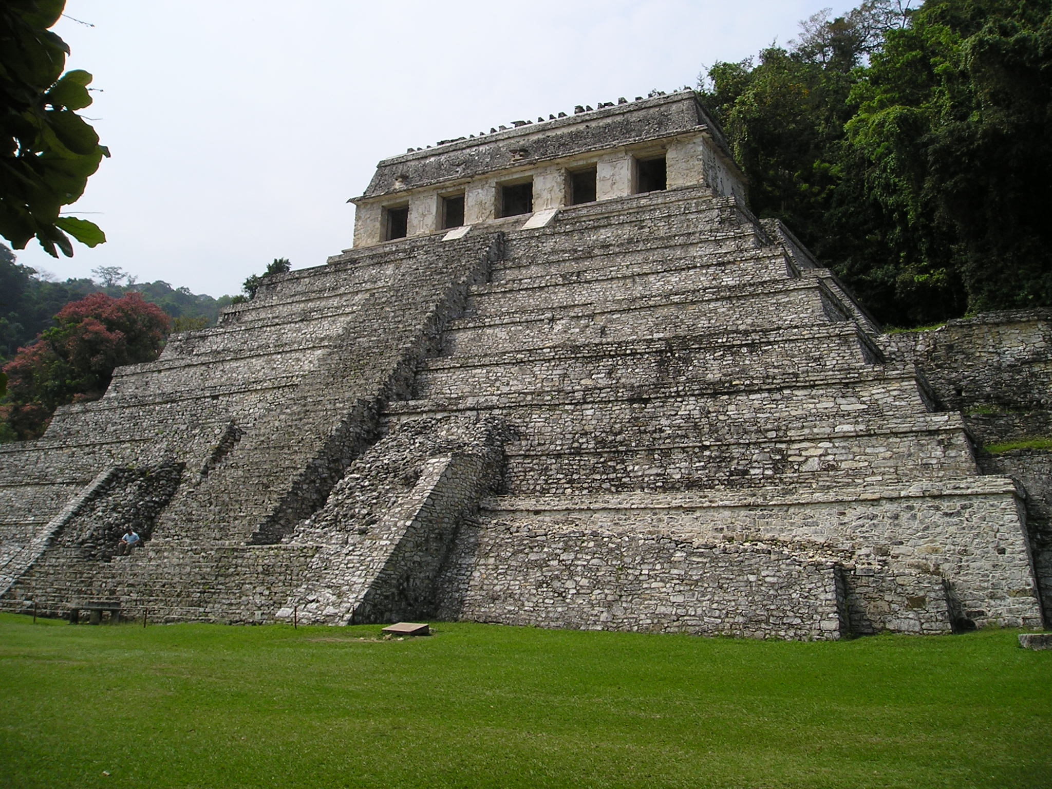 Temple of Inscriptions at Palenque, Chiapas, Mexico.